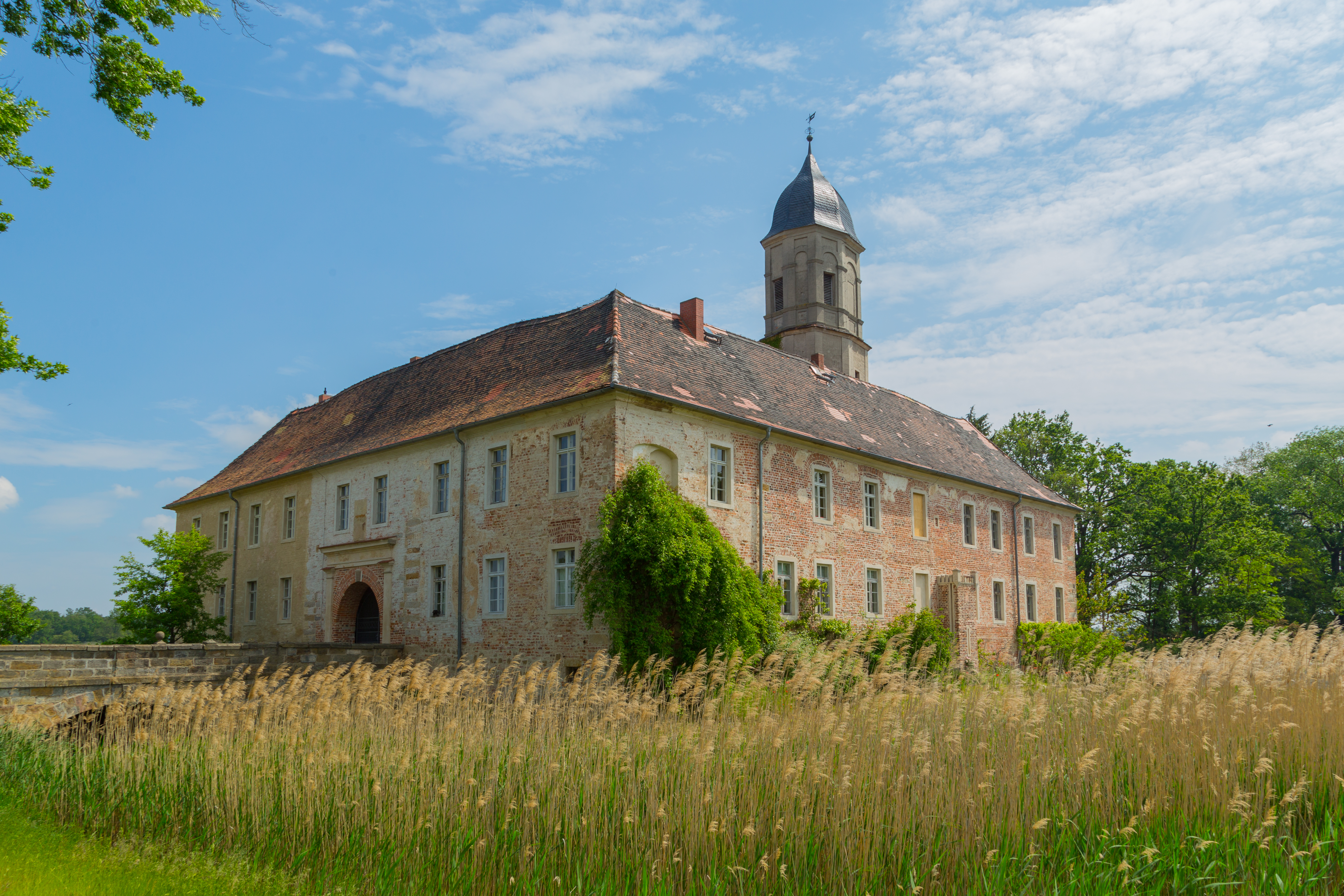 Hemsendorf Castle in Hemsendorf, district of Jessen (Elster), Landkreis Wittenberg, Saxony-Anhalt, Germany.